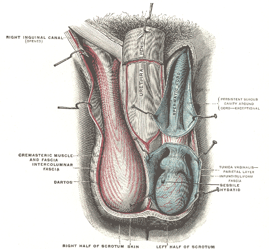 The scrotum. On the right side the cavity of the tunica vaginalis has been opened; on the left side only the layers superficial to the Cremaster have been removed. (Testut.) Taken from Gray's Anatomy: Figure 1143